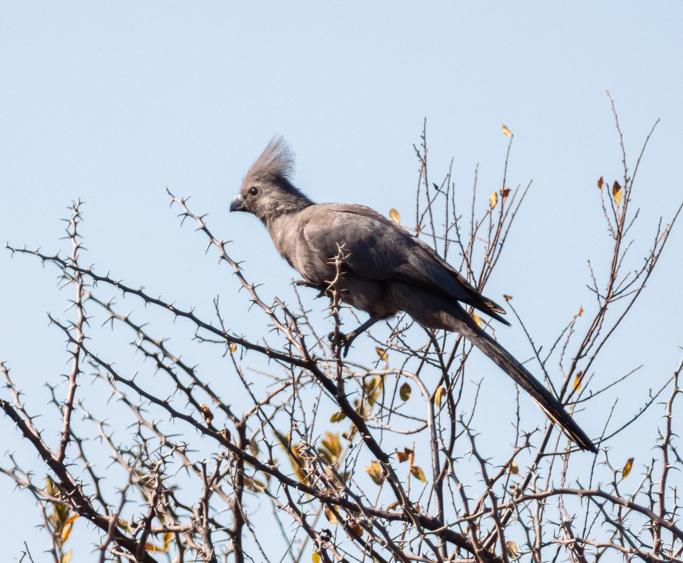 Grey go-away-bird (Corythaixoides concolor), Khama Rhino Sanctuary, Botswana